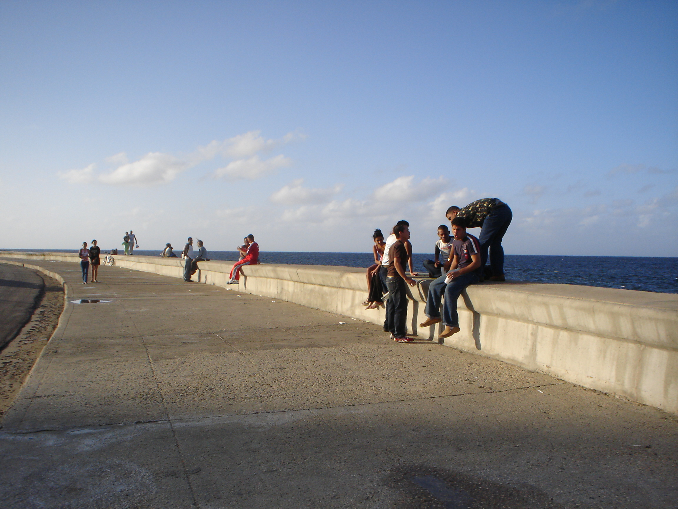 Every day scene on the Malecon in La Havana, Cuba.